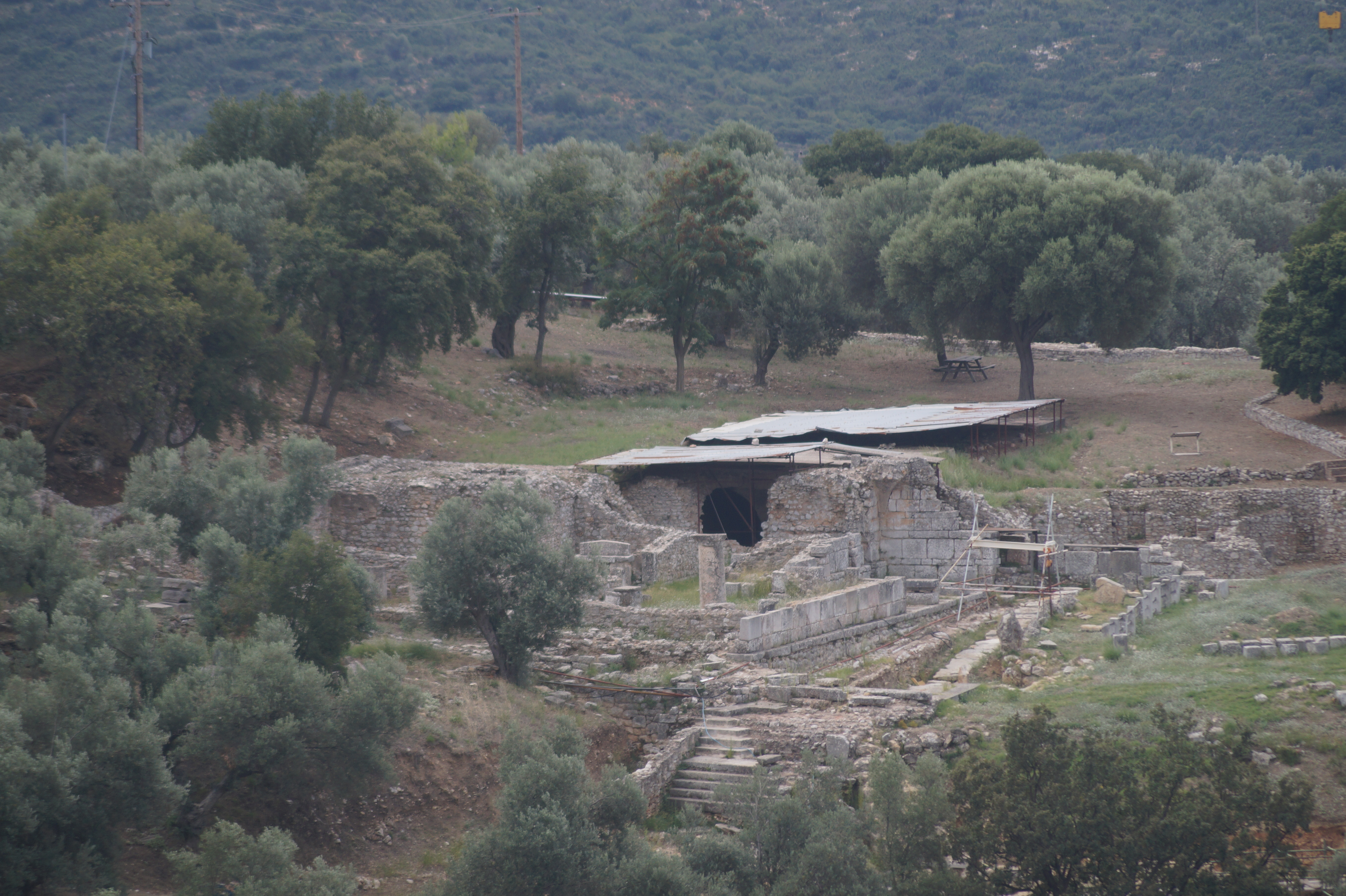 Epidauros, Argolis, Greece: View from the western slope of Mount Titthion on the Sanctuary of Apollo Maleatas. In the foreground there are the ruins of the roman propylon. Behind there is the so called Skana (roman house of the priest?). Under the roof there is the roman cistern und to the right the nymphaeum.